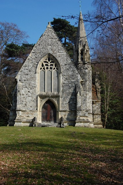 Roman Catholic chantry chapel in Thorndon Park, Essex, built to serve Thorndon Hall